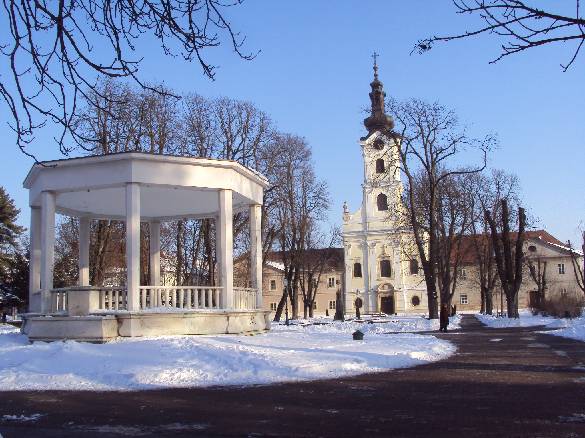 City of Bjelovar, Croatia